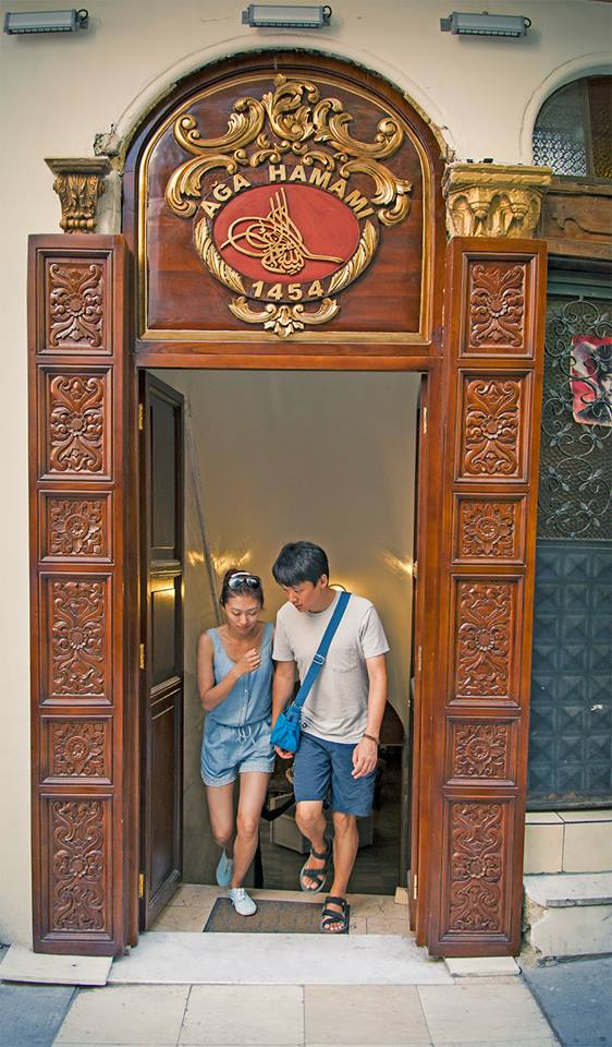 Tarihi Ağa Hamamı giriş kapısı